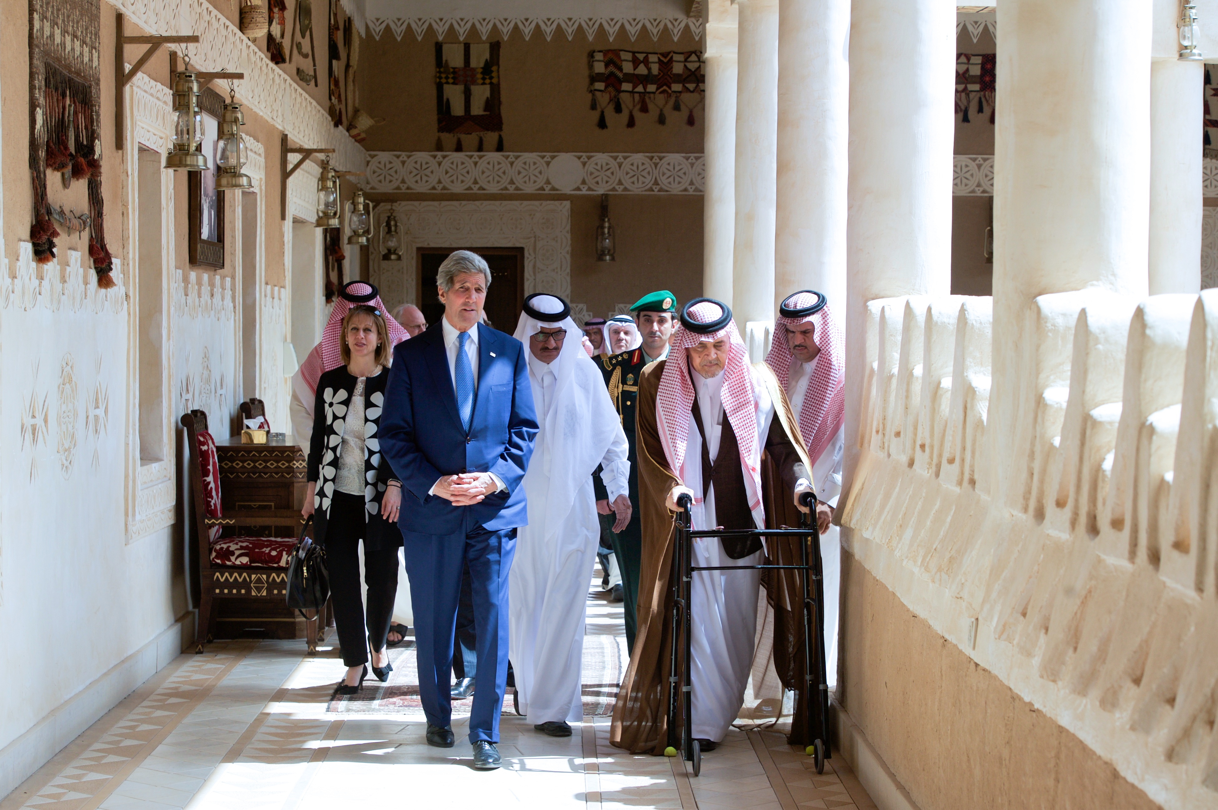 U.S. Secretary of State John Kerry walks with Foreign Minister Saud al-Faisal of Saudi Arabia on March 5, 2015, at Diriya Farm in Riyadh, Saudi Arabia, en route to a meeting with King Salman. [State Department photo/ Public Domain]